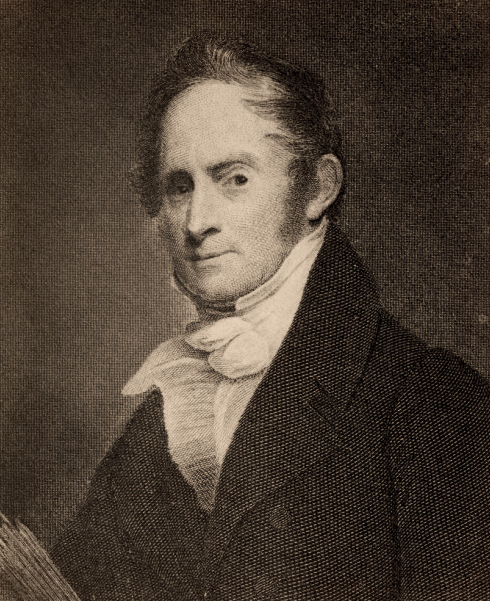 Half-length portrait. Process print from an engraving. From University of Illinois Theatrical Print Collection - Portraits of Actors, 1720-1920